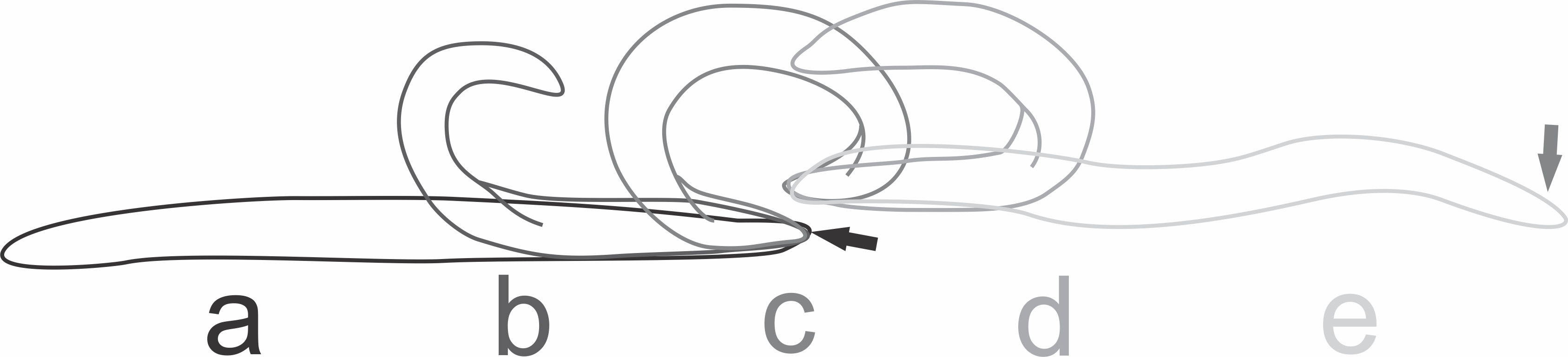 Tumbling behavior of Endeavouria septemlineata. (A) Initial position; (B) posterior end lifted and bent forward; (C) posterior end touching the substrate ahead of the anterior end; (D) anterior end lifted; (E) final position. Arrows show head in initial and final positions.